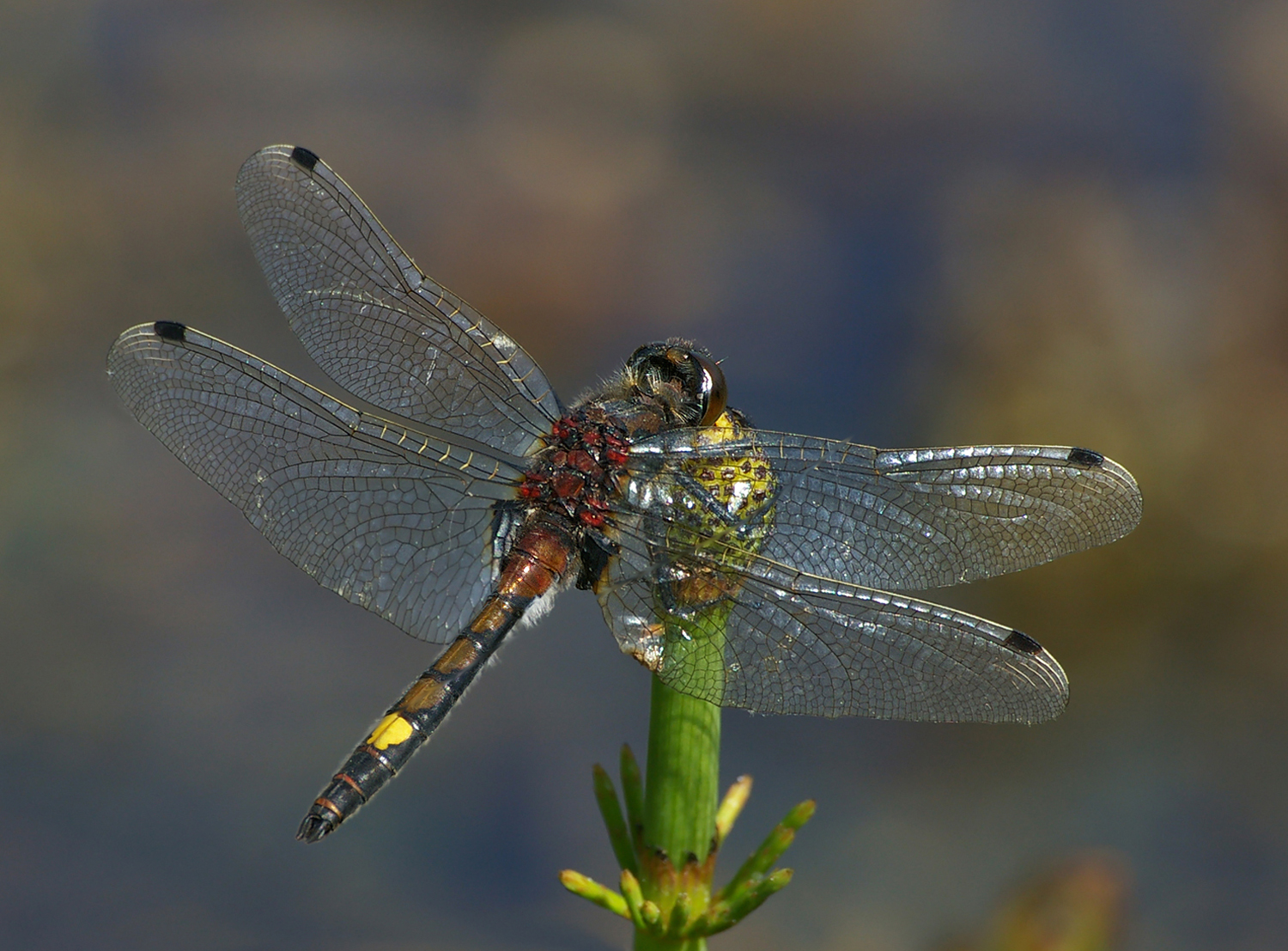 Male specimen of the Yellow-spotted Whiteface; right hindwing twisted by wind